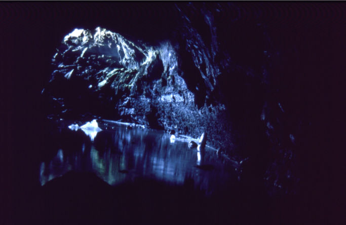 Surtshellir lava tube, Iceland, entrance seen from inside the tube